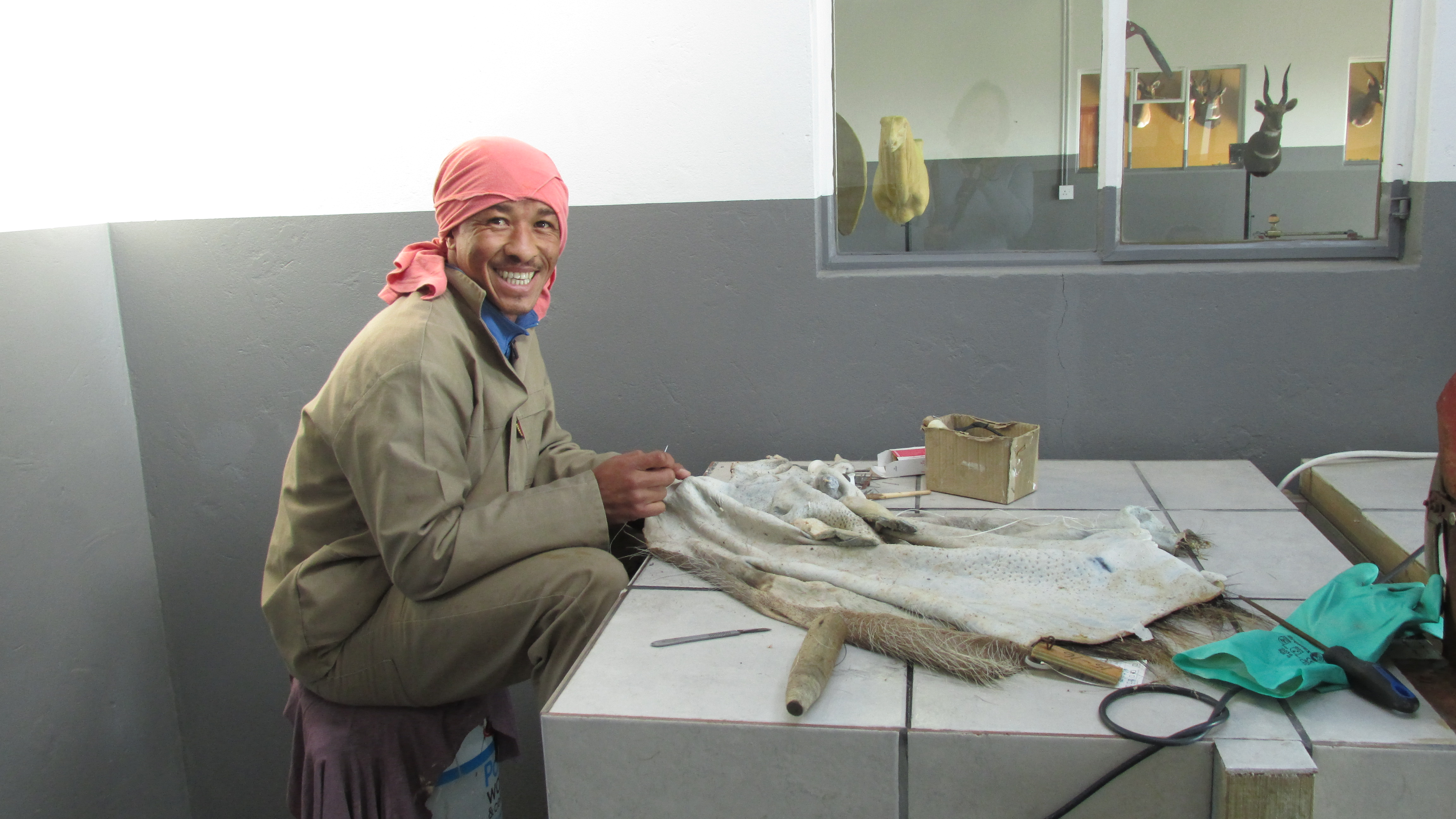 Taxidermist assistant processing a skin This is an image of "African people at work" from South Africa